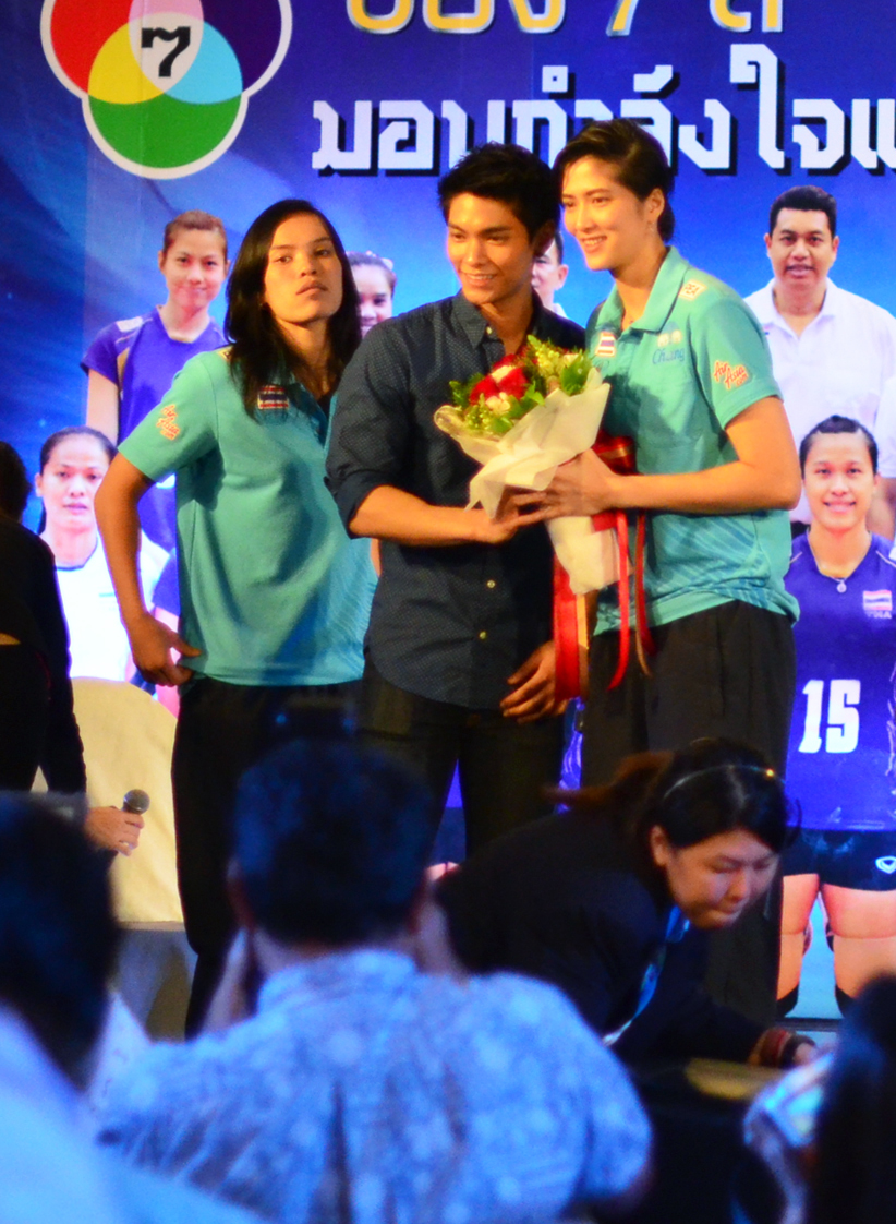 Wilavan, Mickey, Pleumjit